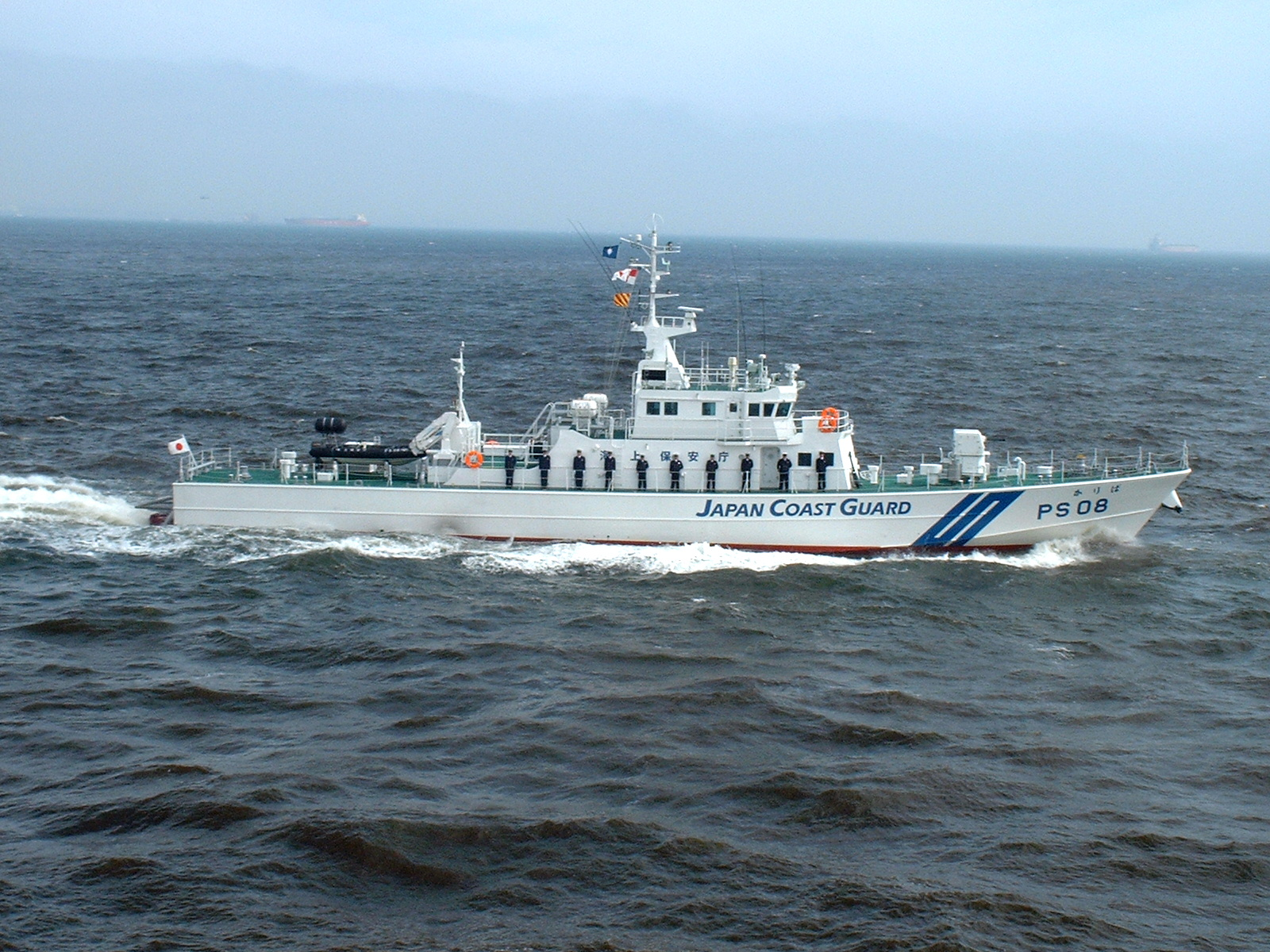 Japan Coast Guard (JCG) patrol vessel Kariba (PS08).